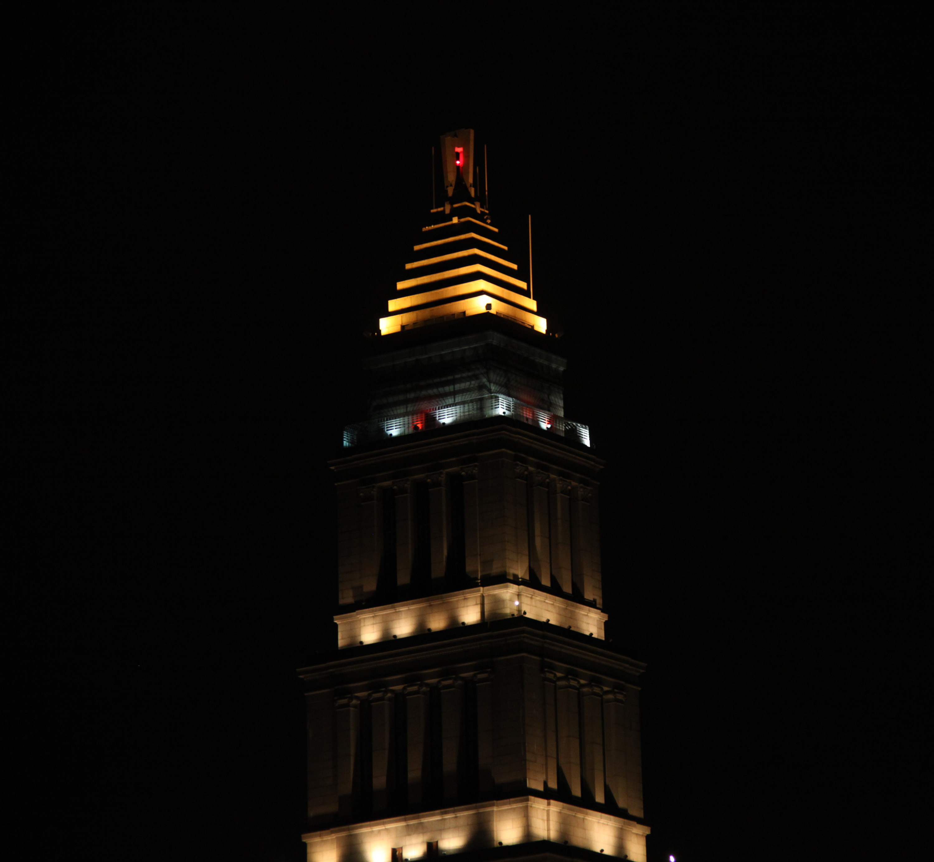 Night-time exterior image of the upper floors of the George Washington Masonic National Memorial in Alexandria, Virginia, in the United States. The structure is capped by a step pyramid with seven steps. The light fixture atop the pyramid is in the shape of a double keystone (a shape which is of symbolic importance to Freemasons). The Grand Chapter of Virginia of Royal Arch Masonry donated the aluminum double-keystone symbol and light at the top of the building. The fixture, the largest of its kind in the world at the time, was in place by February 1929 but not yet illuminated (as exterior lighting systems were still being installed). The $17,000 light fixture is 19 feet (5.8 m) high, made of aluminum, and has its own independent power supply. Claude Haynes, a steelworker employed as a construction worker at the memorial since 1923 and a member of Alexandria-Washington Lodge No. 22, completed the light by installing the aluminum sheeting on it on February 8, 1929. The United States Department of Commerce provided, free of charge, equipment for lighting the exterior of the building and tower as an aid to aviation. The memorial's owners paid to have the equipment installed. In 1970, the city of Alexandria donated a back-up electrical generator to keep the exterior of the tower lit in case of blackouts. Additional lighting for the tower was also installed that year. The Grand Lodge of New York provided the funds to finish the work, and the final tower exterior illumination was completed in the summer of 1973.